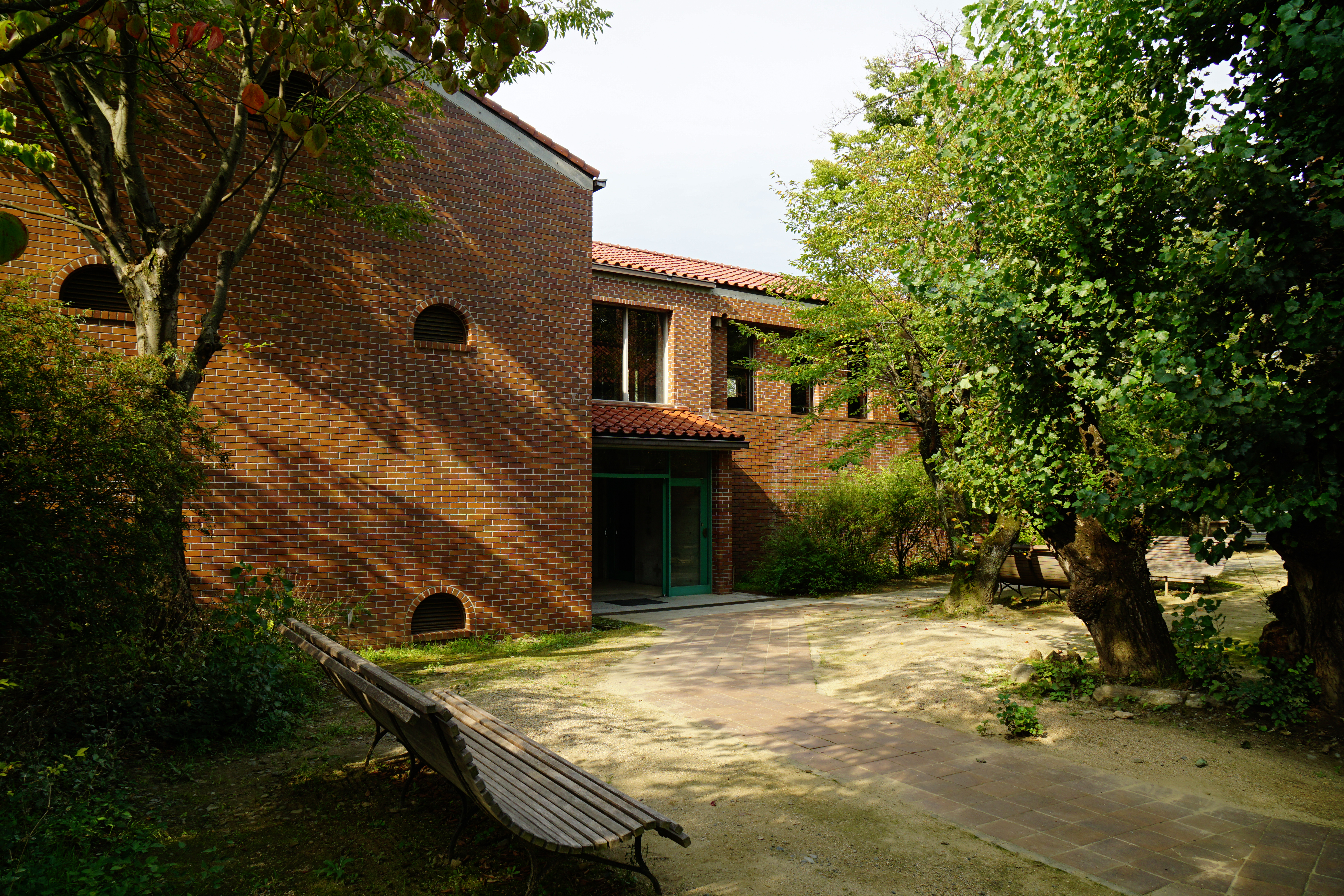 Rokuzan Art Museum in Azumino, Nagano prefecture, Japan